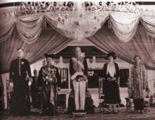 Pakubuwono X of Surakarta poses with Gov.-Gen. de Graeff (center) in 1928.